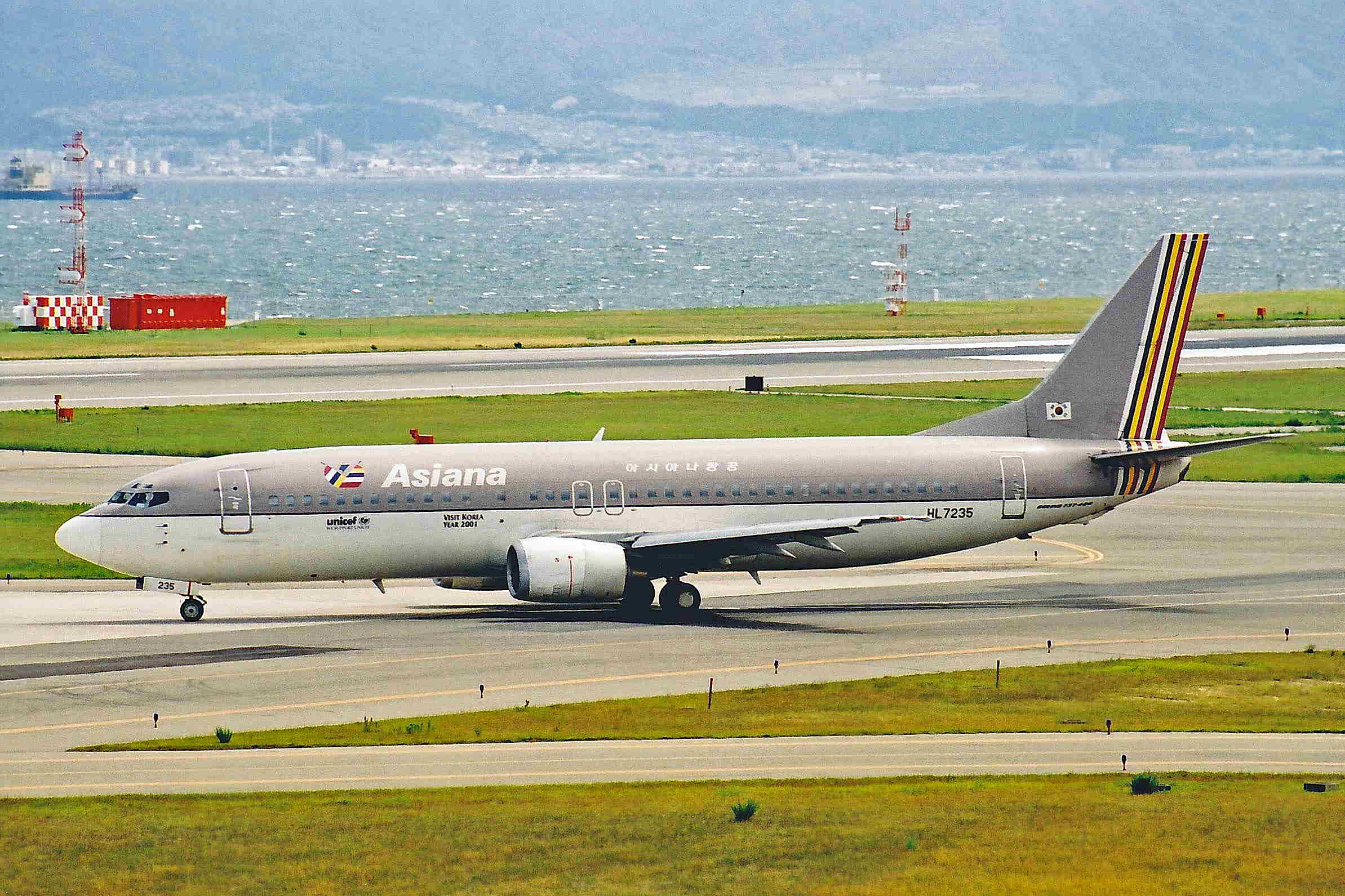 HL7235 B737-400 Asiana Airlines @KIX, July 2001